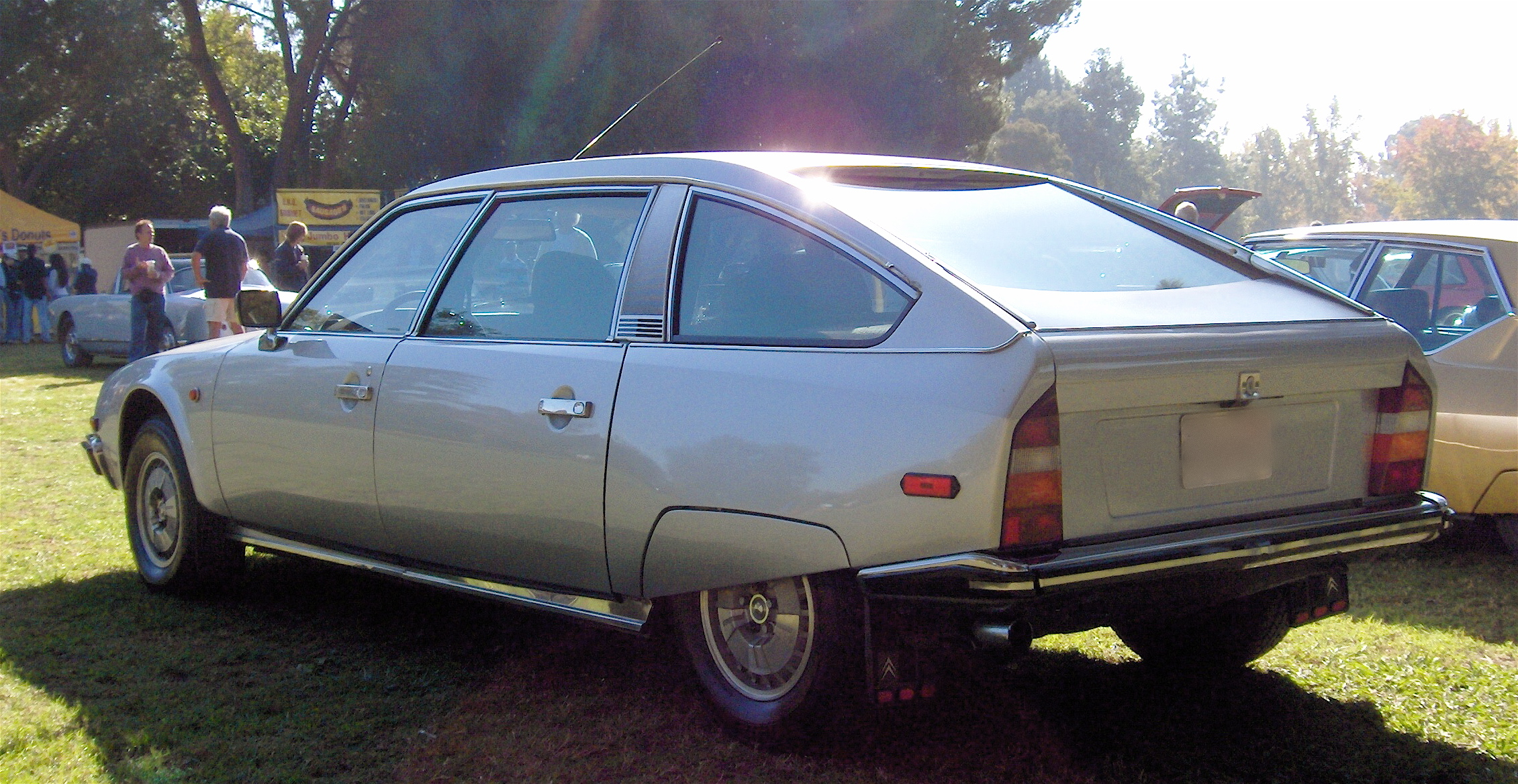 Rear view of a Citroën CX Prestige or Limousine.